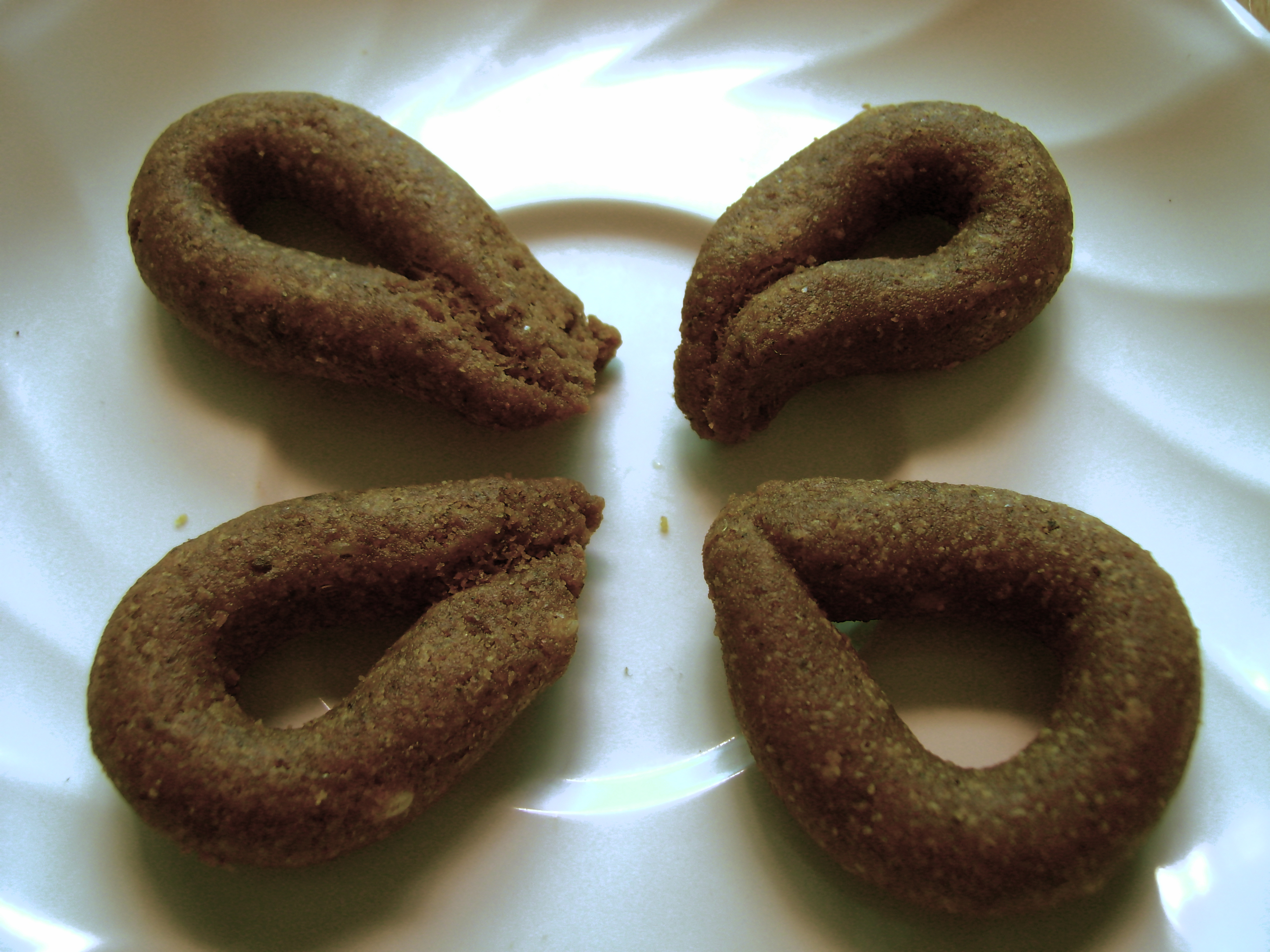 Photograph of 'Kadboli' - a snack from Maharashtra.